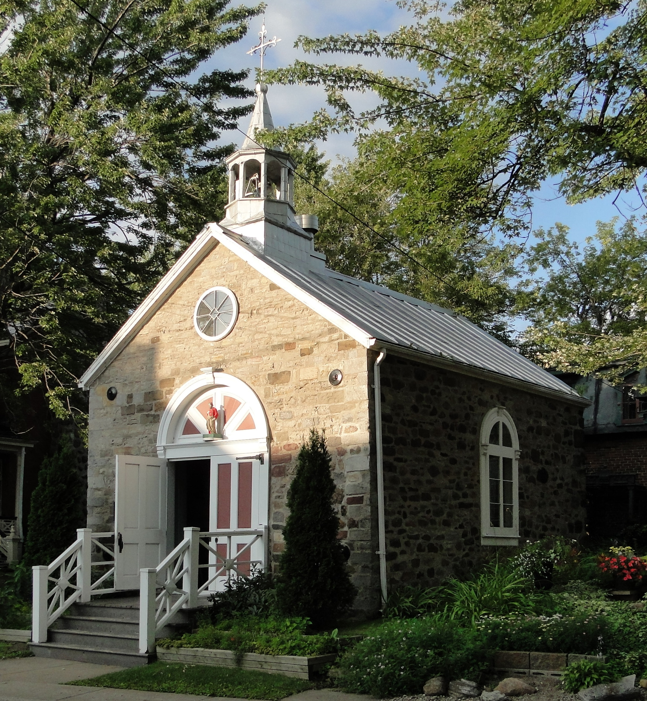 Saint Joachim Processional Chapel (1832), Varennes, province of Quebec, Canada